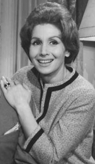 Malvina Pastorino- actriz argentina